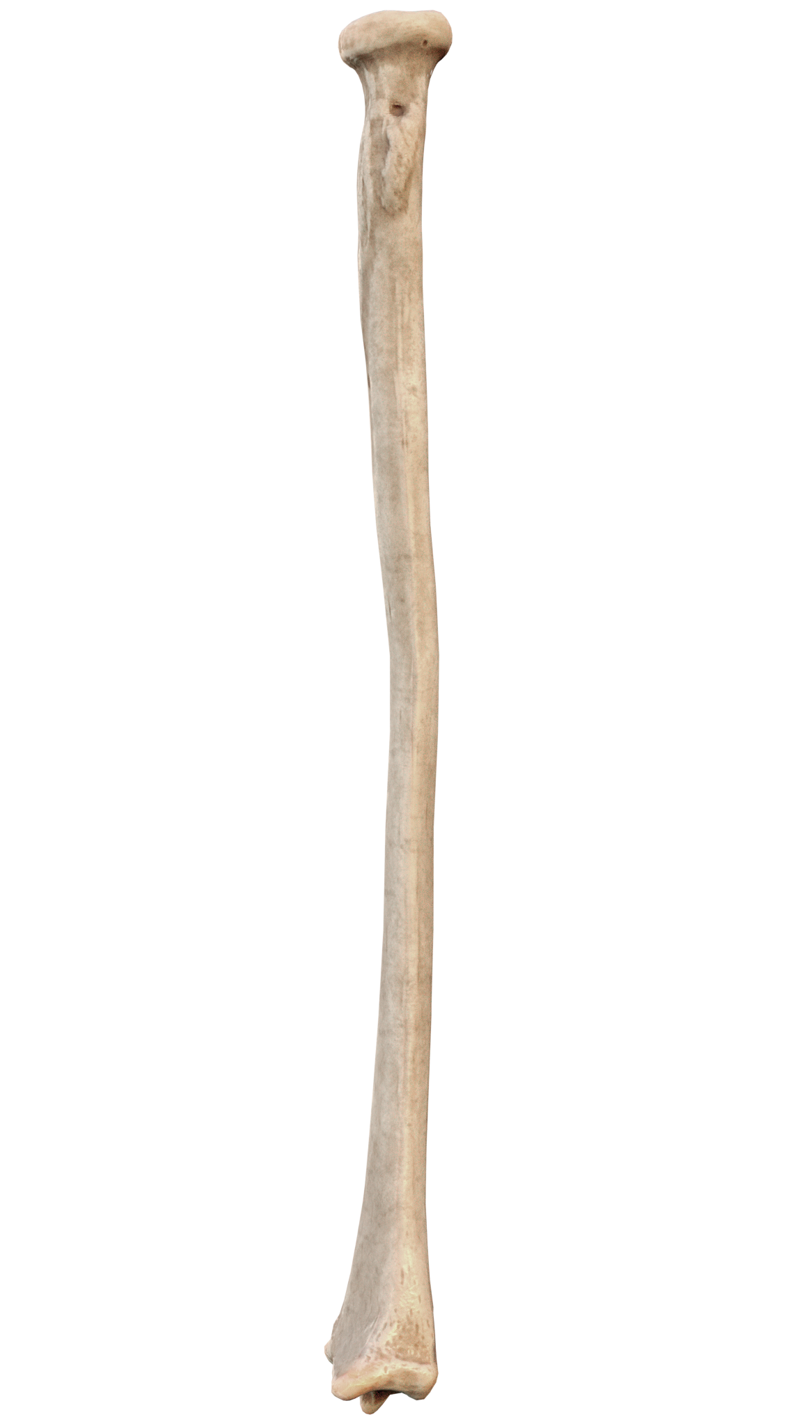 Computer Generated 3d Model showing: Full Medial View of Right Radius